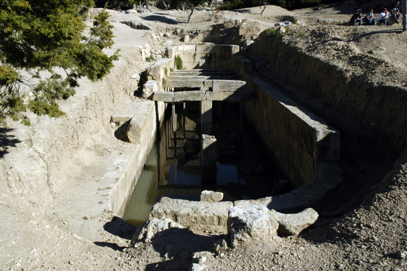 J. Matthew Harrington, personal digital image, November 16, 2006